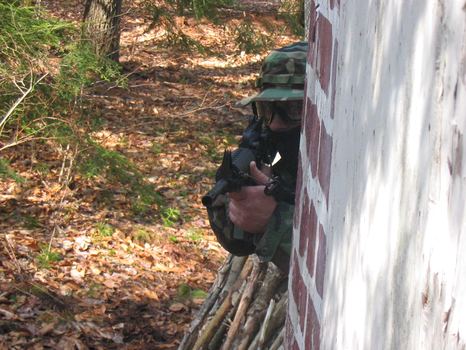 Airsoft player leaning around corner to fire at opponents